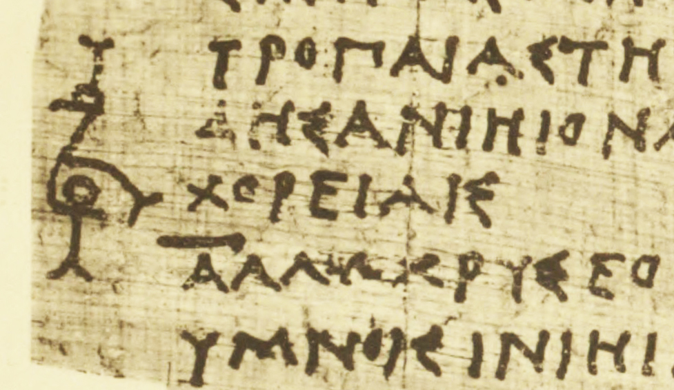 The fifth column of the Berlin Timotheus showing coronis